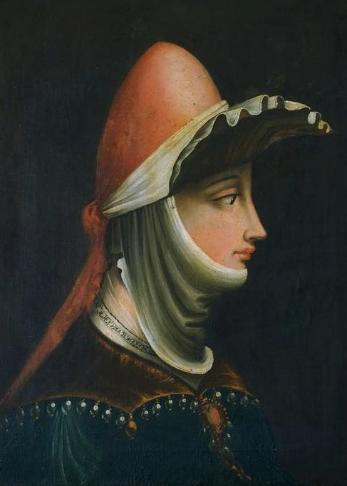 Portrait of Matilde of Tuscany, Margravine of Tuscany.